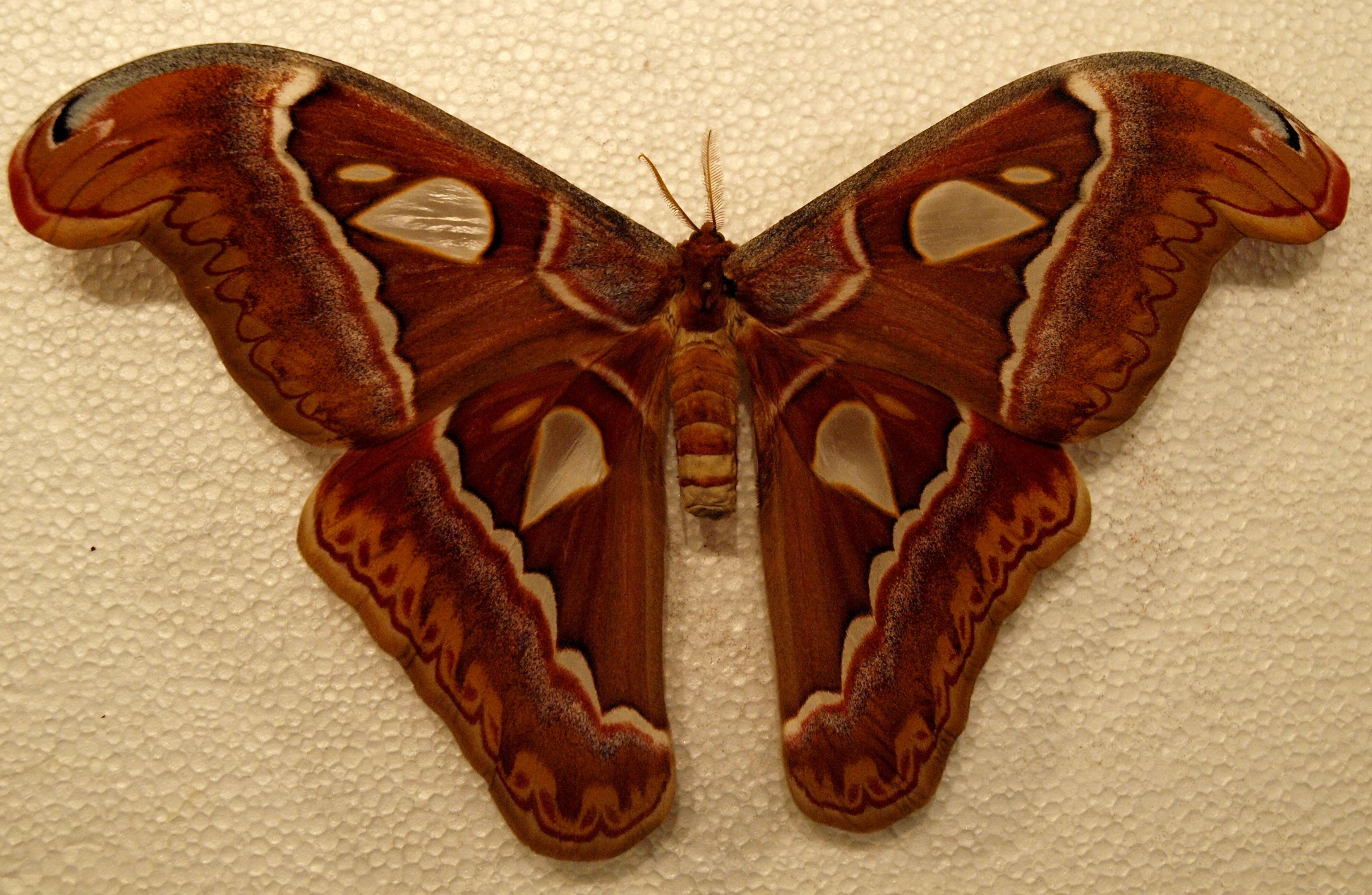 Female Attacus dohertyi (Saturniidae) from Timor. Ex. own collection